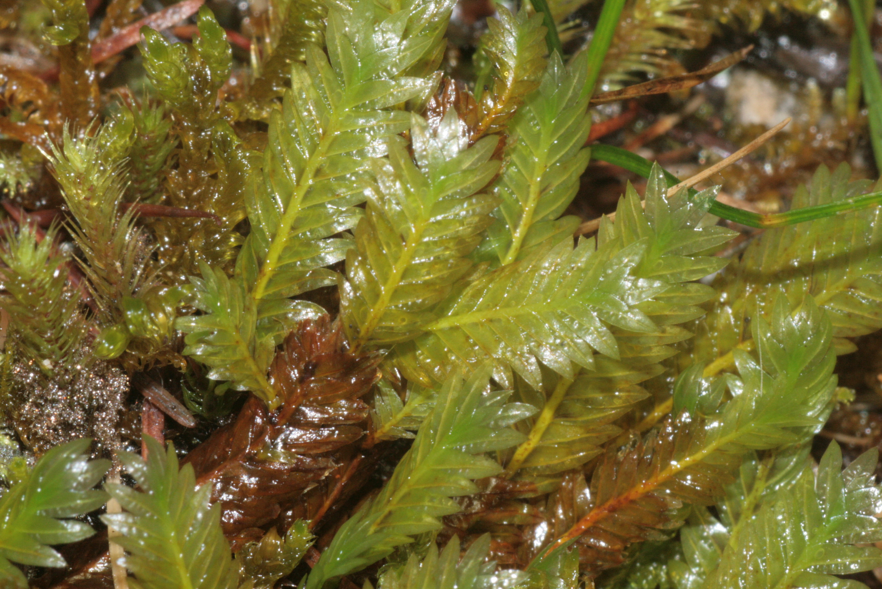 Fissidens adianthoides